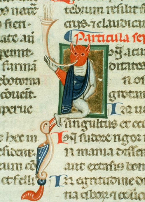 Title: Animal or demon blowing horn, perhaps allegory of disease. Description: Within the vertical stroke of the initial "P" of "Patet," kneeling humanoid grotesque with demonic red furred head, large pointed ears or horns, naked except for blue cloak, red sleeve on r. arm, holds and blows large horn extending up to l., r. hand between legs. Grotesque half-vine, half-bird with blue wings, orange beak, l., appears to bite the sole of demon's foot. Adjacent text: Hippocrates' Aphorismi. [Abstract] Text in red immediately above image: Particula septima. Text to immediate right of text: Consensus acutis morbis frigiditates extremitatum.